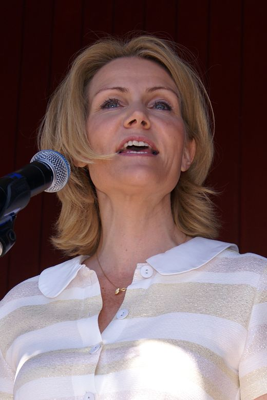 Helle Thorning-Schmidt, Danish politician from Socialdemokratiet (cropped to 2:3 format)